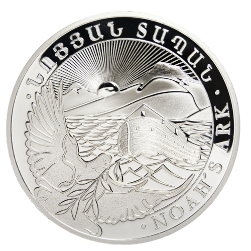 The reverse side of the Noah's Ark silver coin with the ark, the Mount Ararat and the dove with the olive branch. It's minted by GEIGER Edelmetalle, a private mint settled in Germany, with the approval of Central Bank of the Republic of Armenia